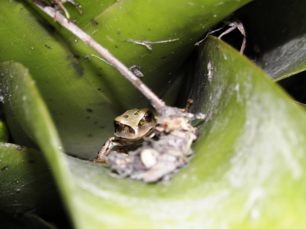 A marsupial frog (Gastrotheca riobambae) in a bromeliad at the Water Museum "Yaku", Quito, Ecuador.